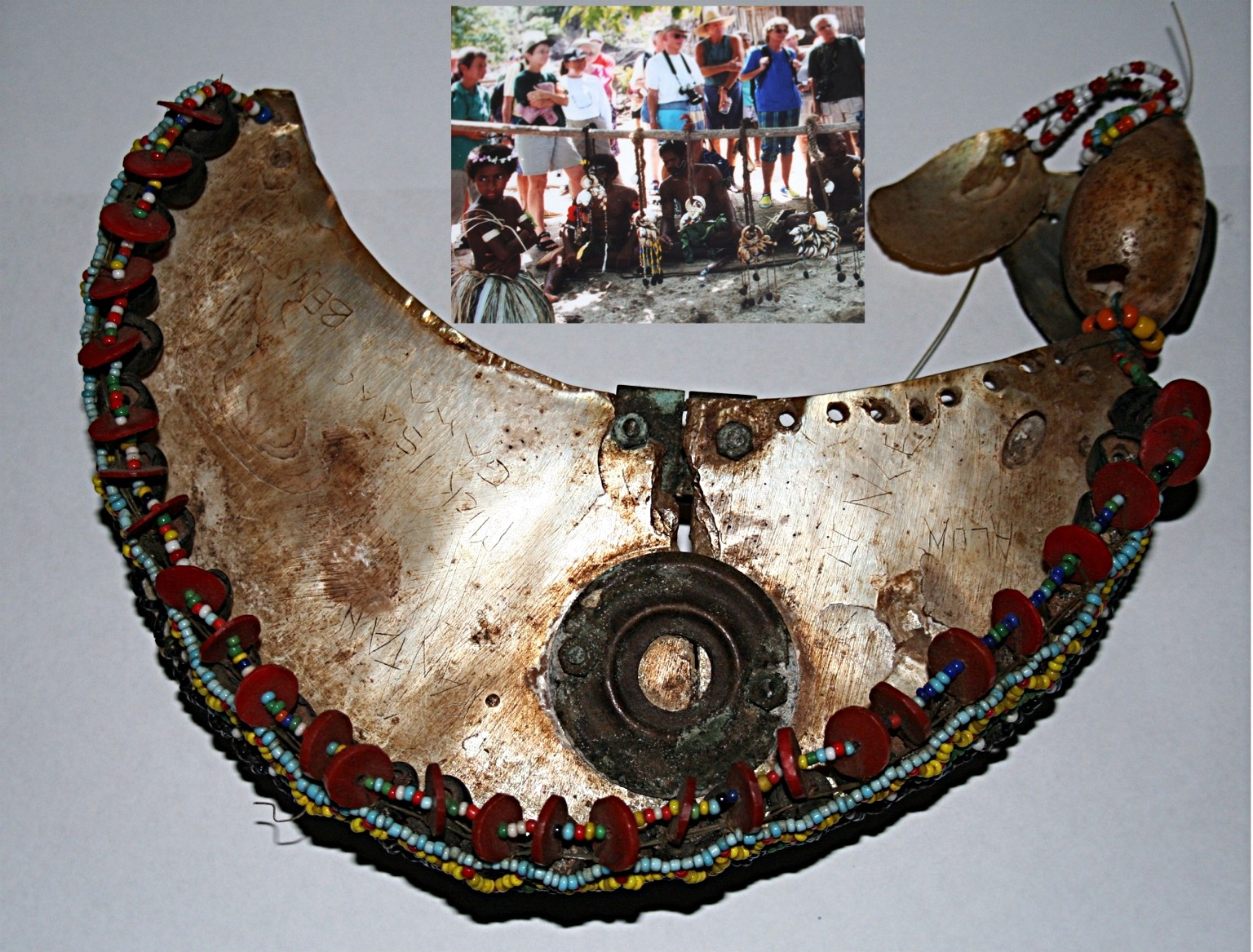 It is a composite image of Kula arm bracelet . You could see the names of the peolpe, who owned the bracelet, written all over. The insert shows Kula items at Nabwageta Island Papua New Guinea. Both pictures were taken by me. The insert is a digital picture of my old film pictire.